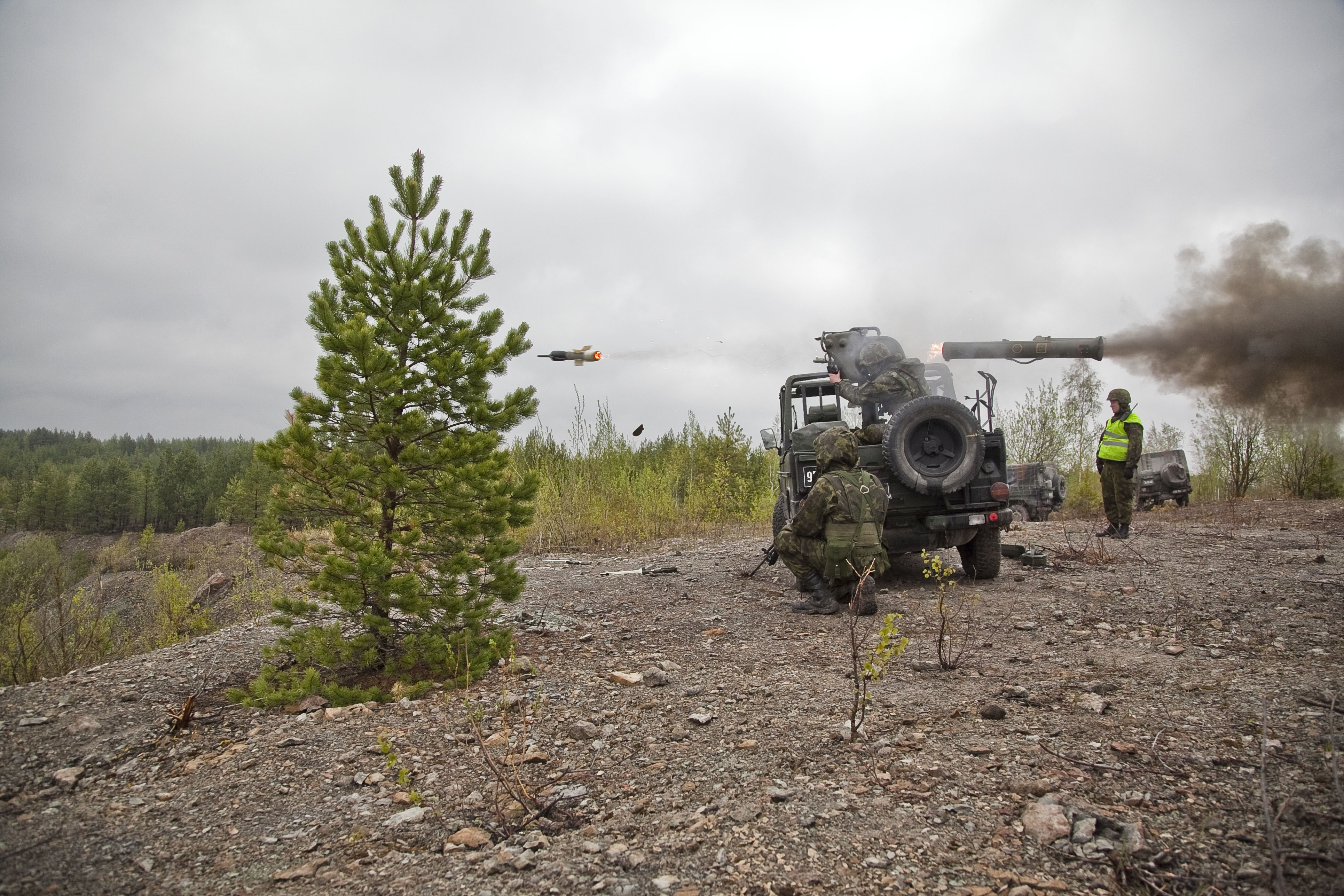 Estonian Defence Forces' reserve units at an exercise